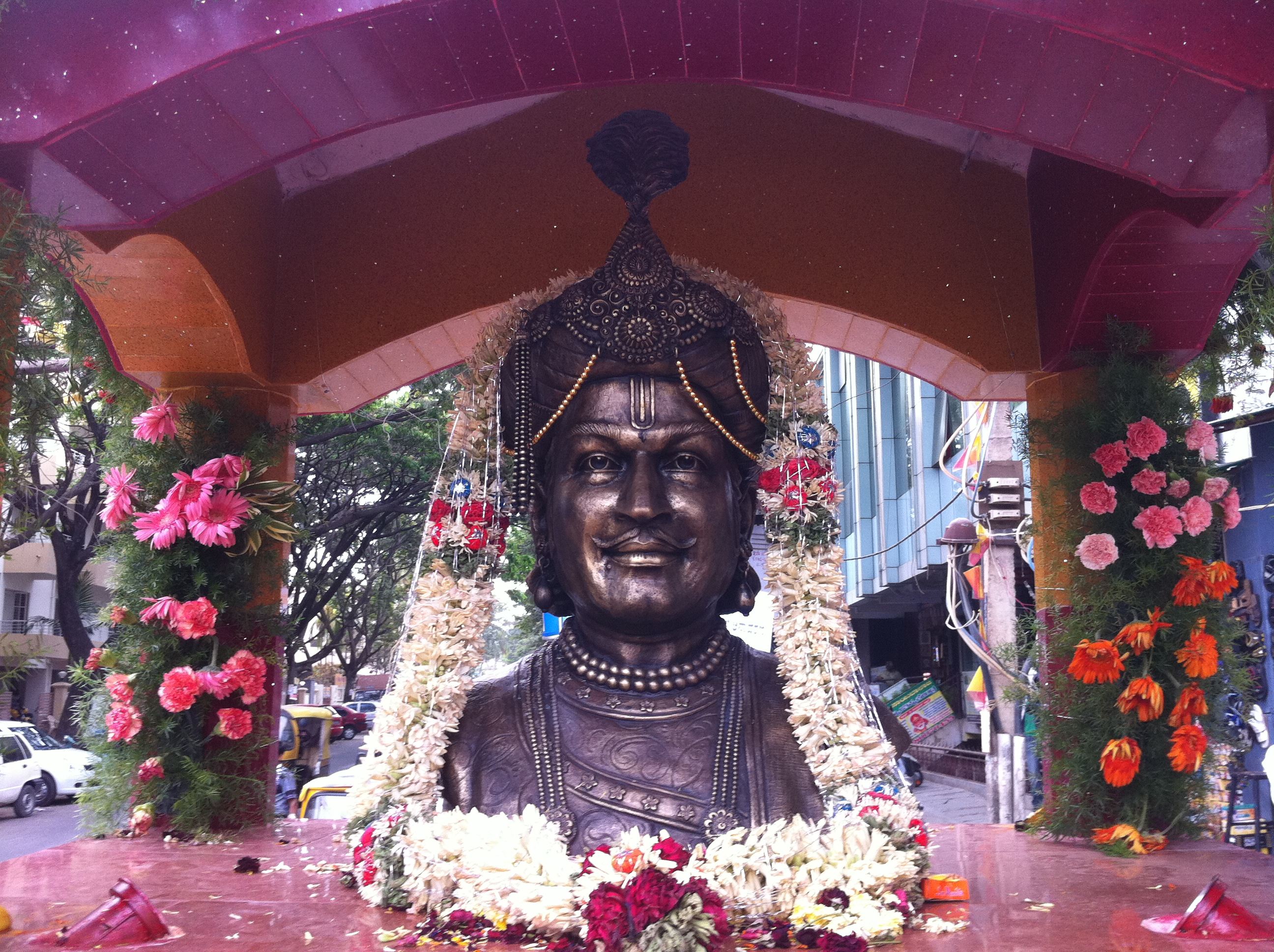 This is a recently installed bust of Rajkumar in Jayanagar, Bangalore.